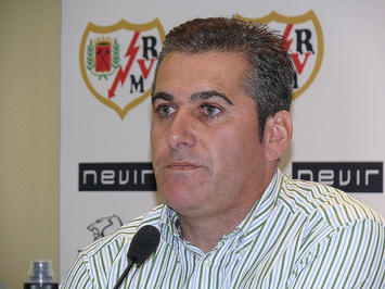 couch of rayo vallecano